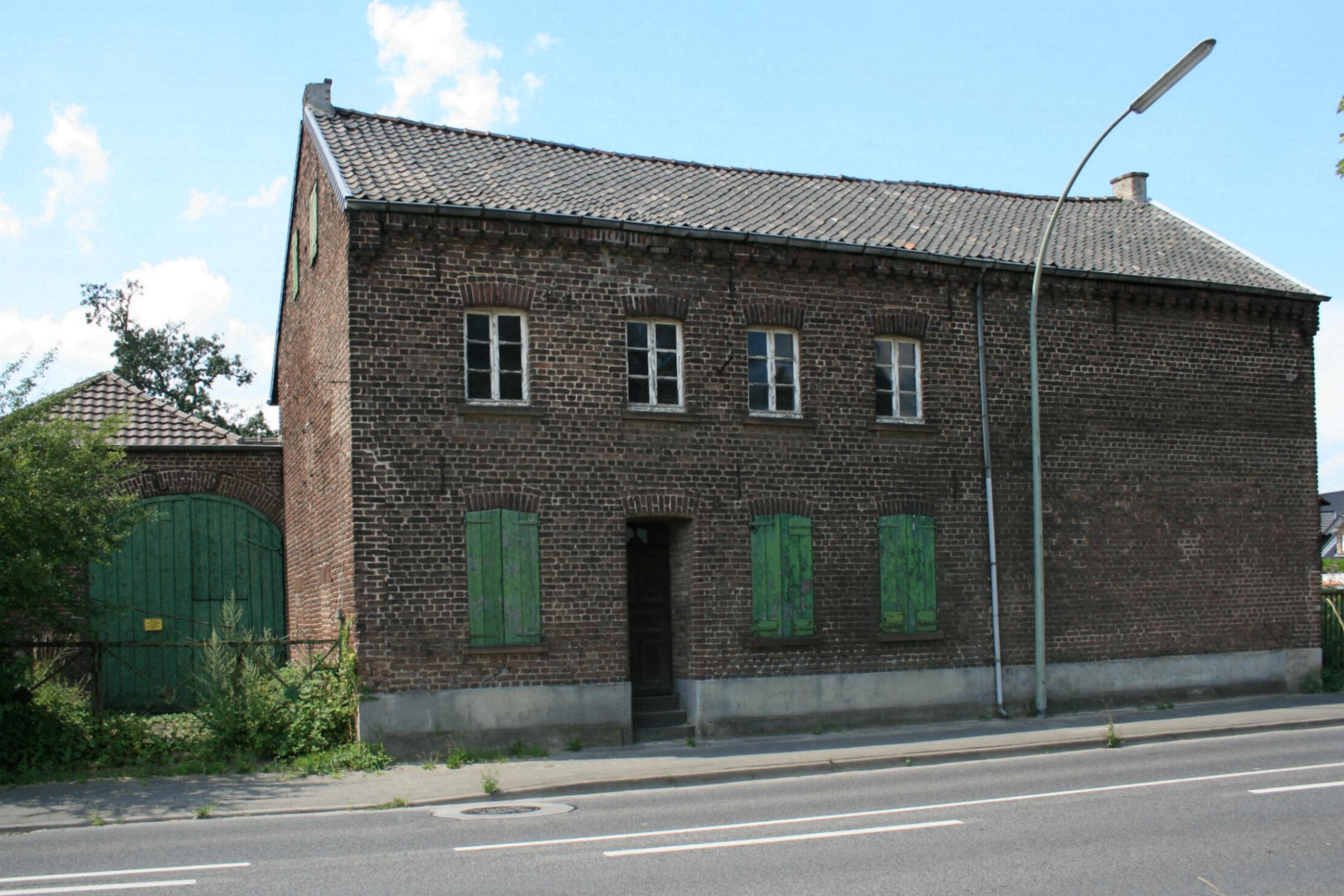 Cultural heritage monument No. H 105 in Mönchengladbach